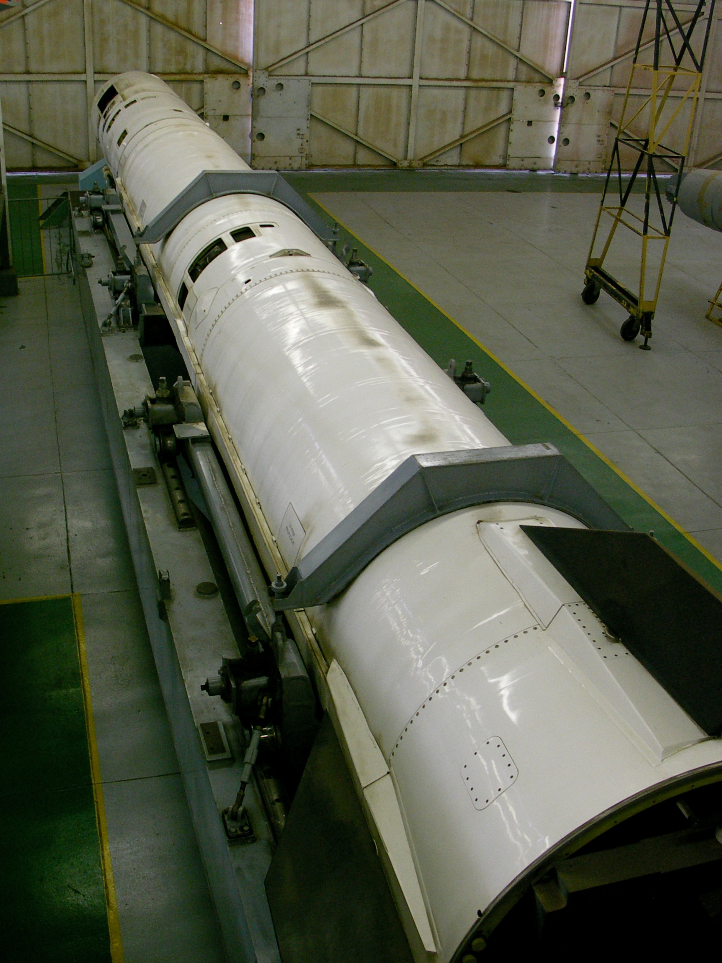 RSA-3 (Shavit) LEO rocket South African Air Force Museum, Swartkop